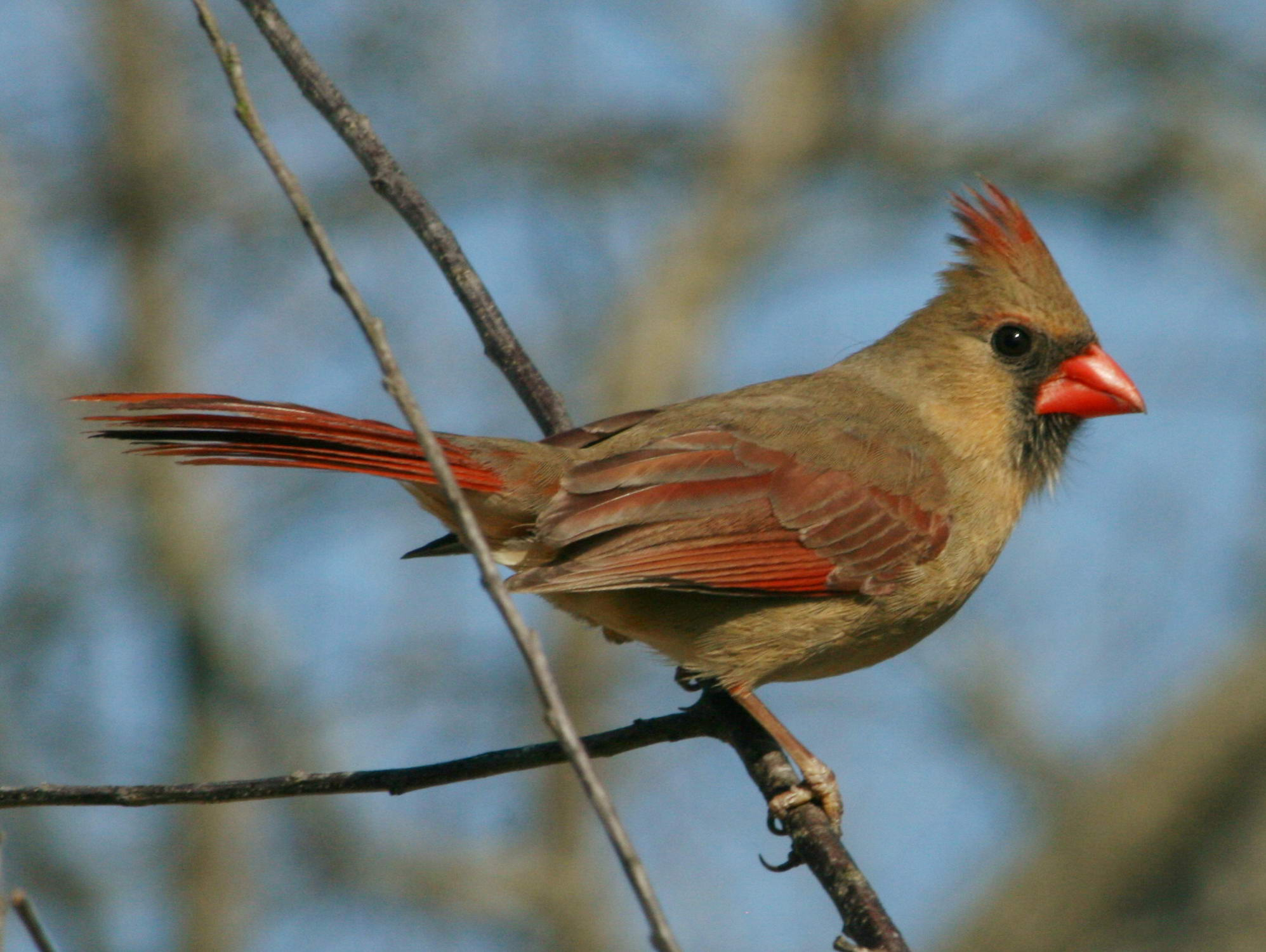 Northern Cardinal (Cardinalis cardinalis) in Ash, North Carolina